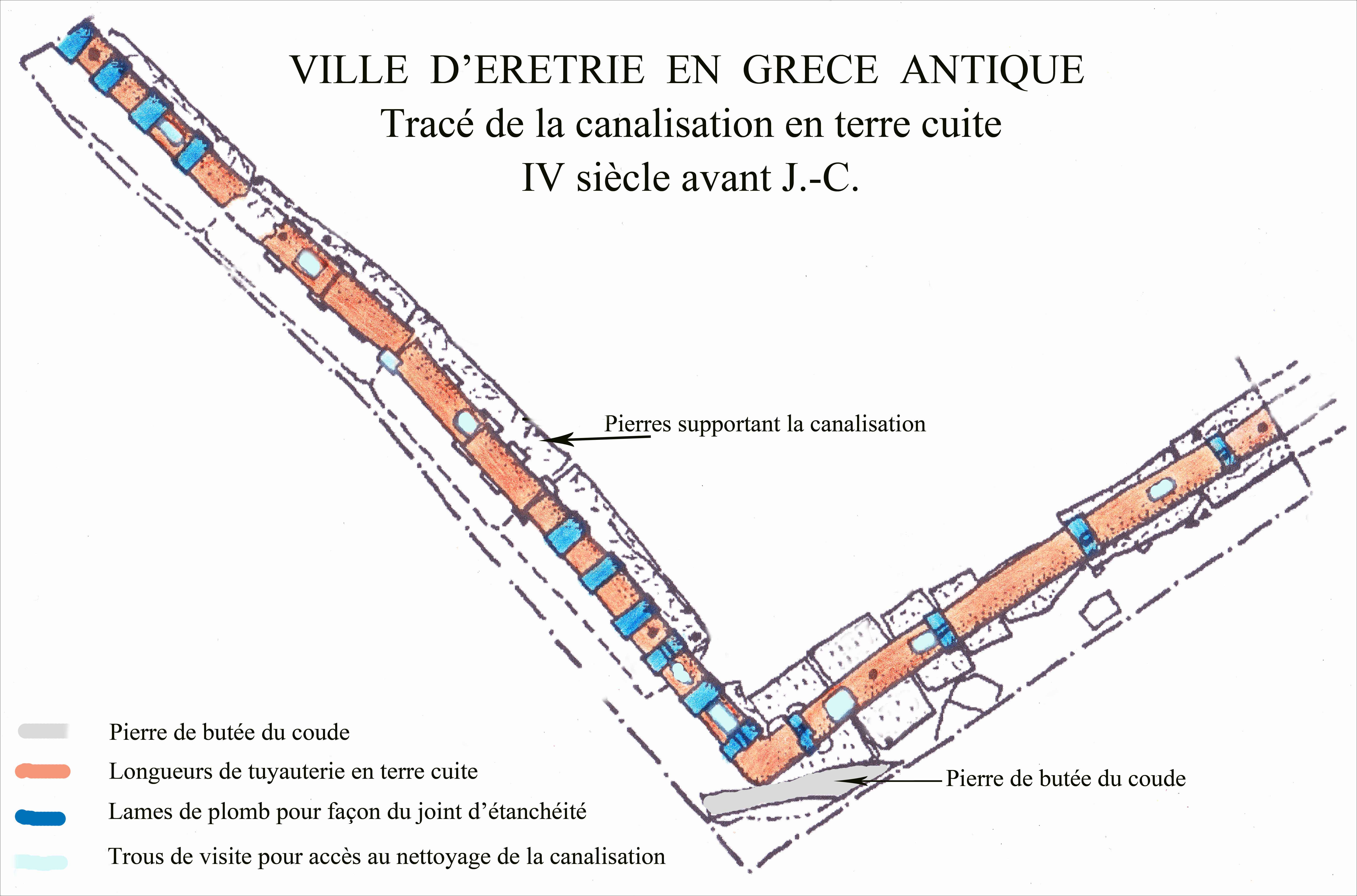 Sketch of terracotta piping at Etérie in Greece.